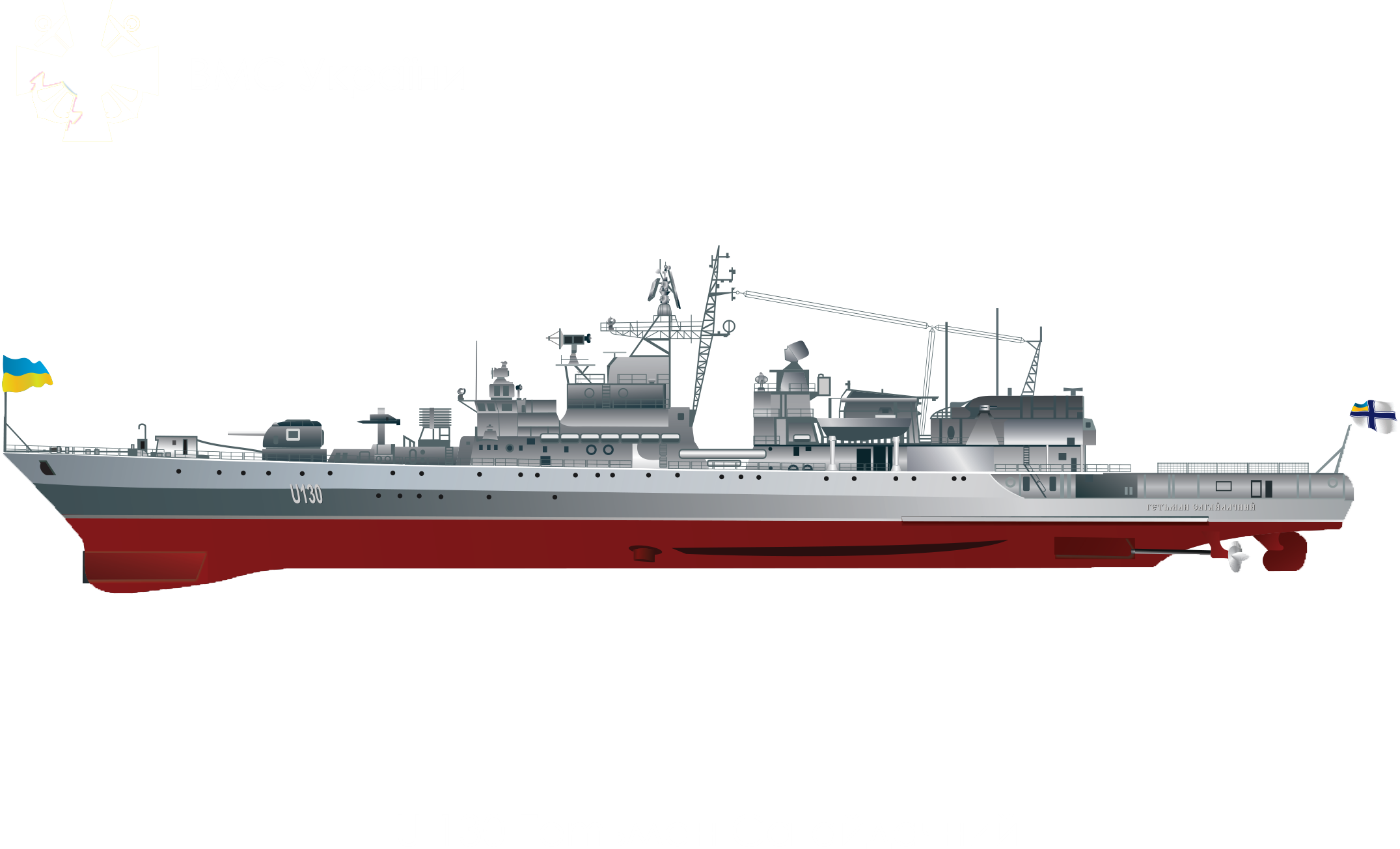 Hetman Sahaydachniy (Ukrainian: Гетьман Сагайдачний) is a frigate of the Ukrainian Navy that was originally built at the Kerch Shipyard as a Project 1135.1 patrol ship of Nerei / Menzhinskiy-class. She was launched on 29 March 1992 and commissioned on 2 April 1993. Homeported at Odessa since March 2014, she is the flagship of the Ukrainian Navy.